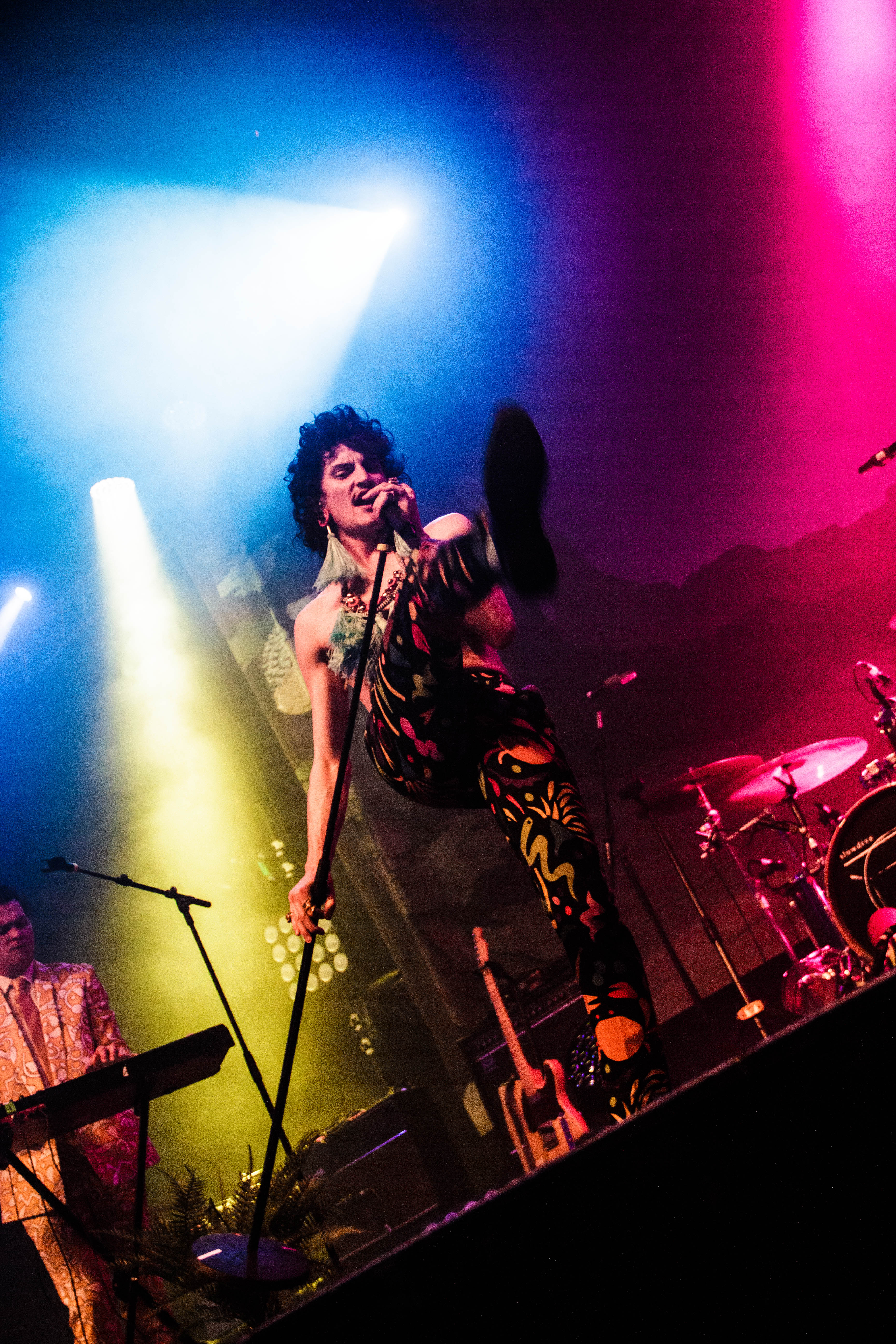 Client Liaison at Way Back When Festival 2017